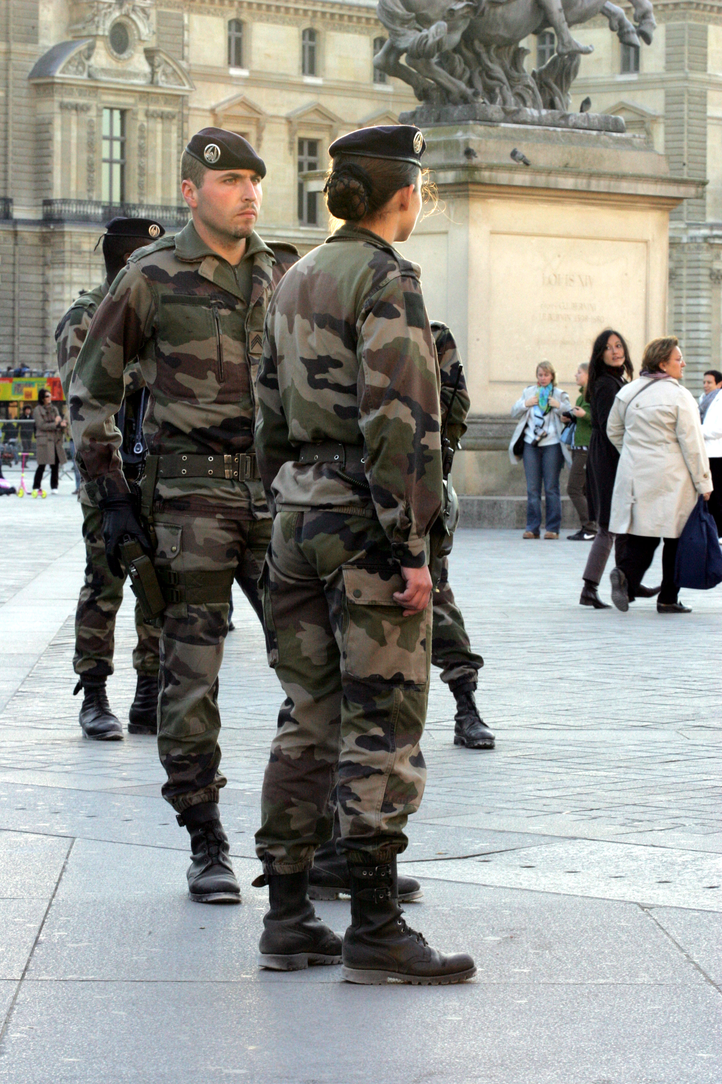 Members of the French Army stand guard at the in front of the Louvre museum, in the framework of Vigipirate.